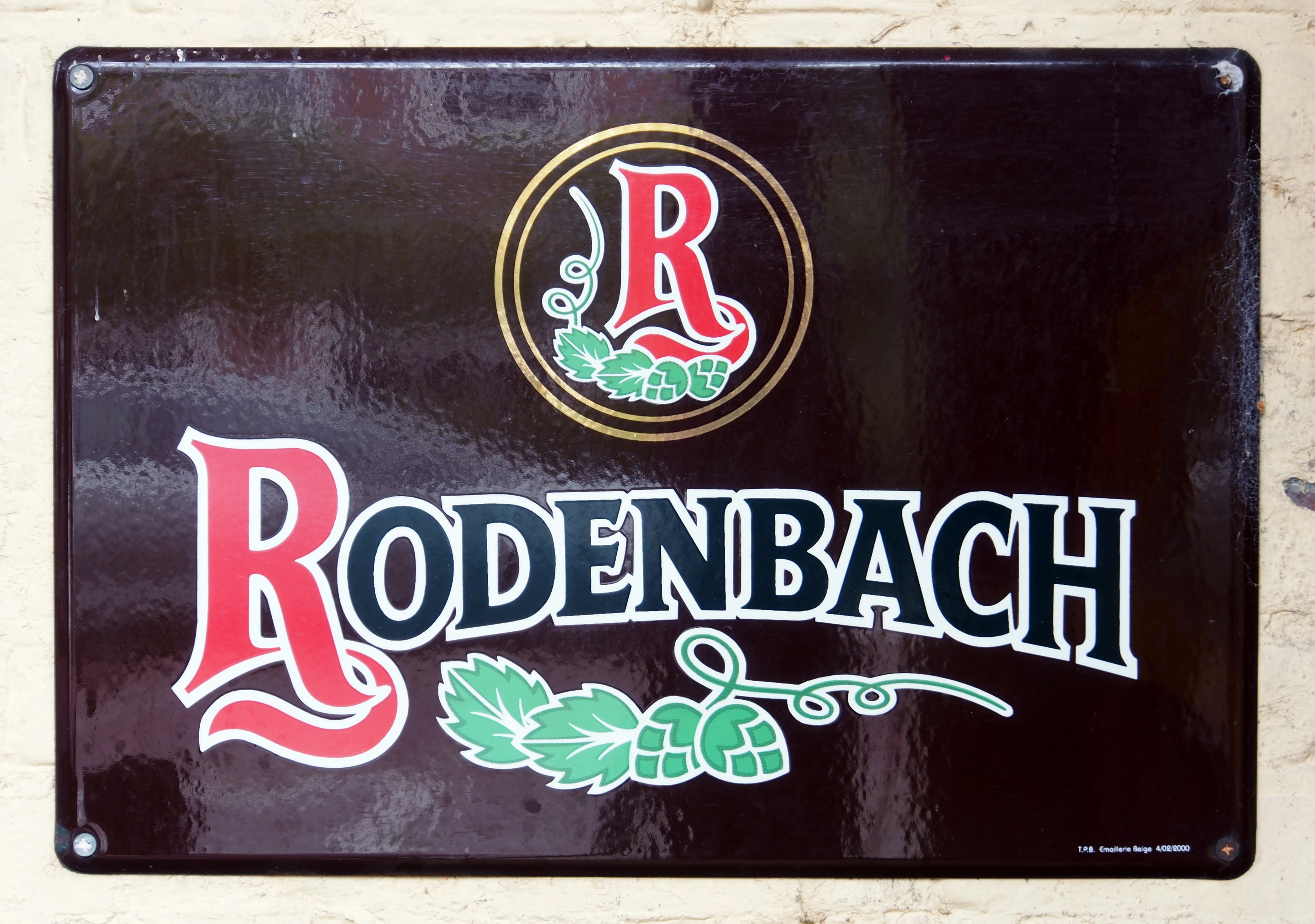 Photographed at the Bierreclame Museum Haagweg, Breda, The Netherlands.